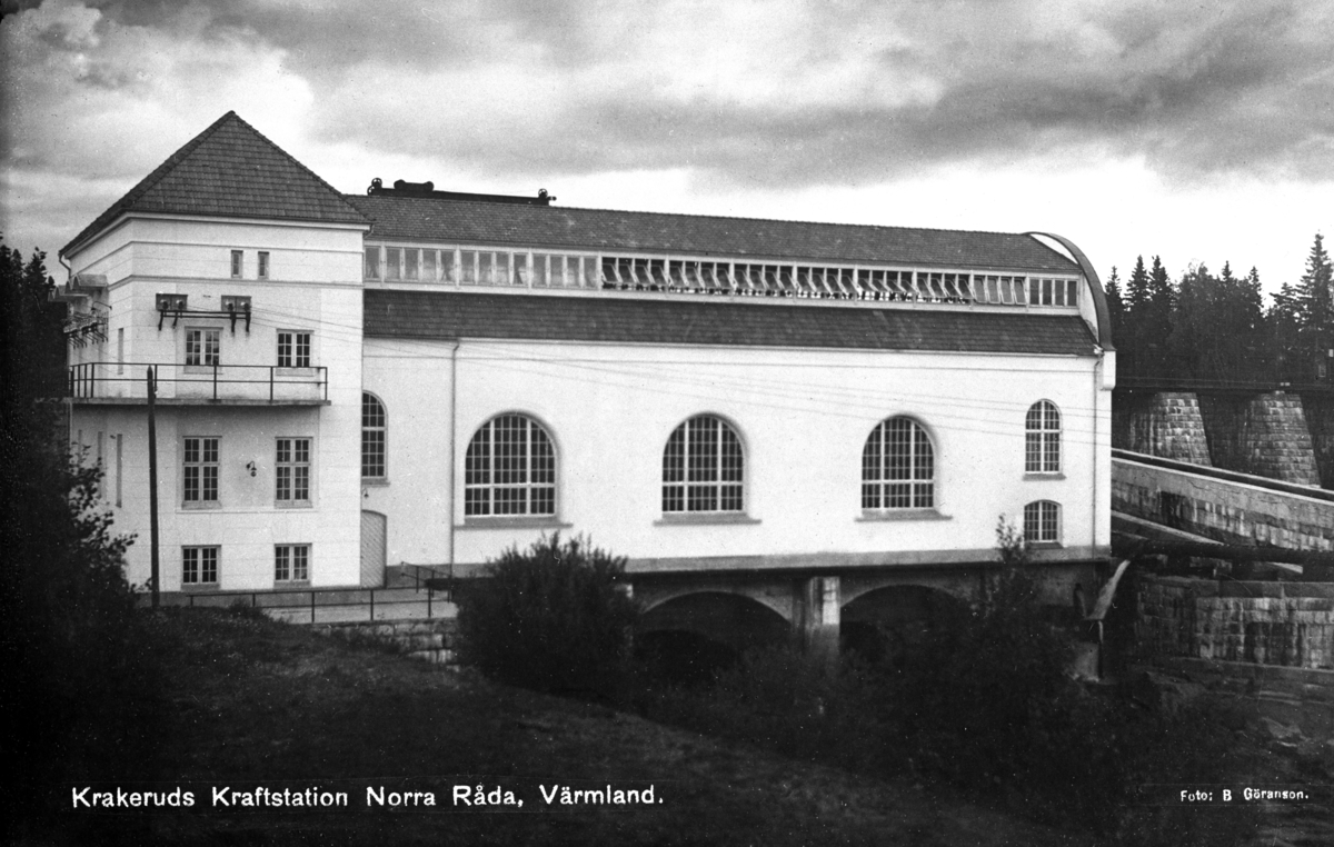 Norra Råda: Krakeruds kraftstation